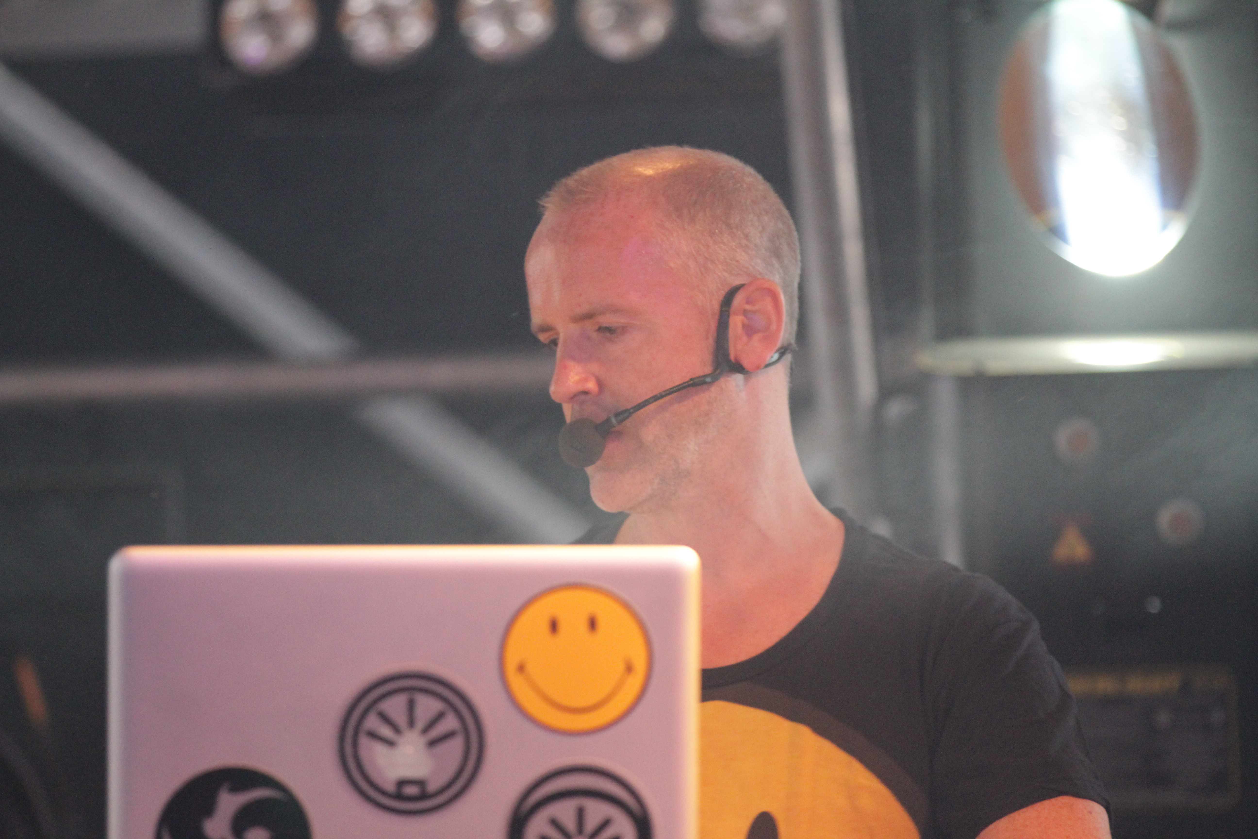 Thomas Heckmann legt am Classic Terminal auf